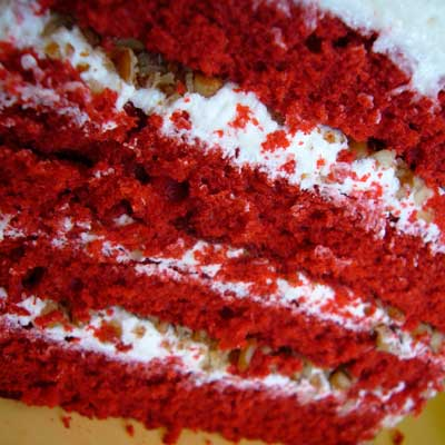 Red velvet cake.